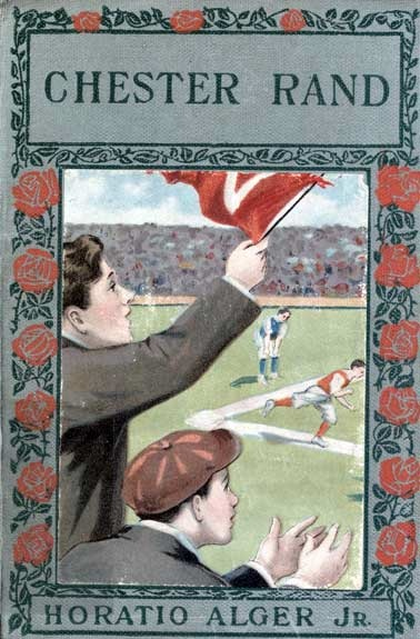 Cover of Chester Rand by Horatio Alger Jr.